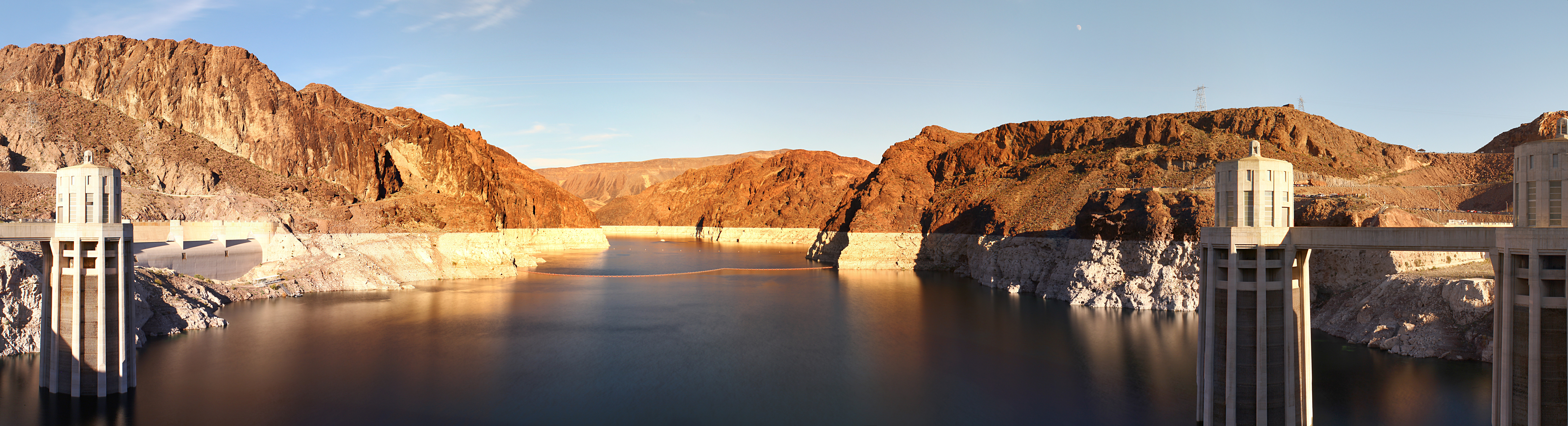 A panorama of Lake Mead from the Hoover dam.